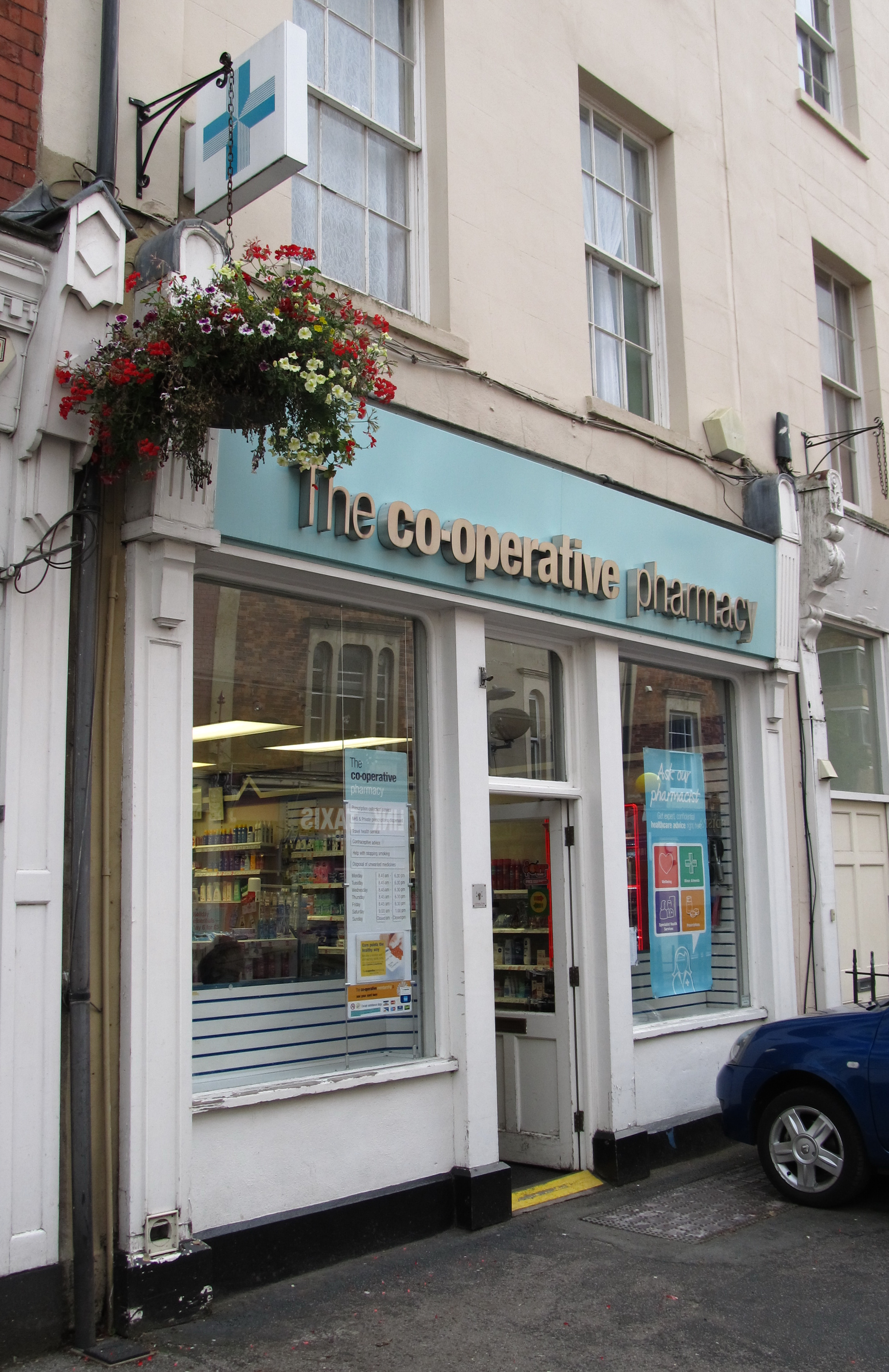 The Co-operative Pharmacy, St Michael's Hill, Bristol, in 2014 just before the chain was sold to to the Bestway Group and rebranded as Well Pharmacy.